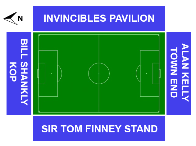 Layout of the current Deepdale stadium, including the naming/orientation of the four stands.